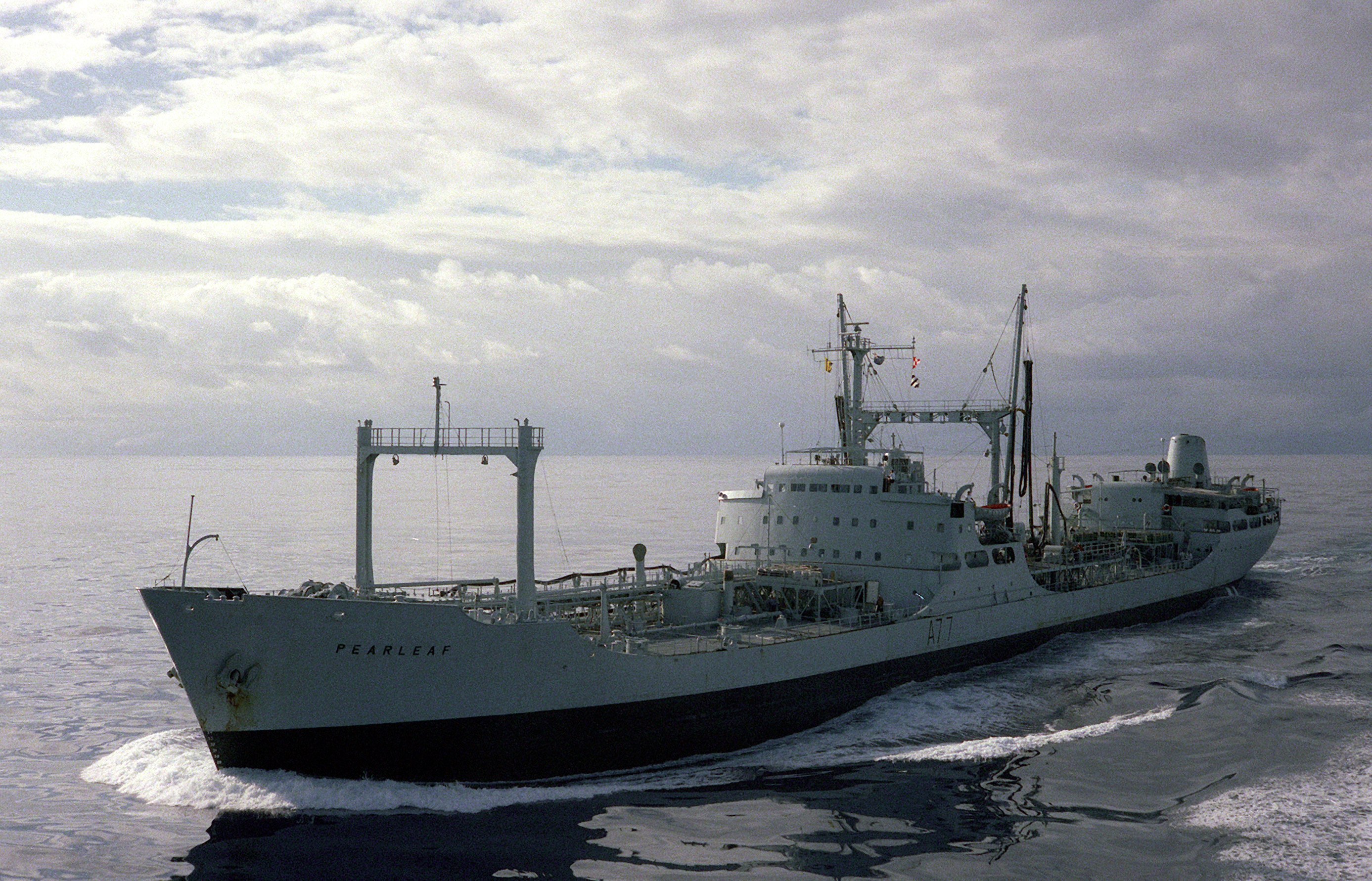 The British replenishment oiler RFA Pearleaf (A77) after completing an underway refueling of a U.S. Navy ship during exercise "Safepass" in 1986.